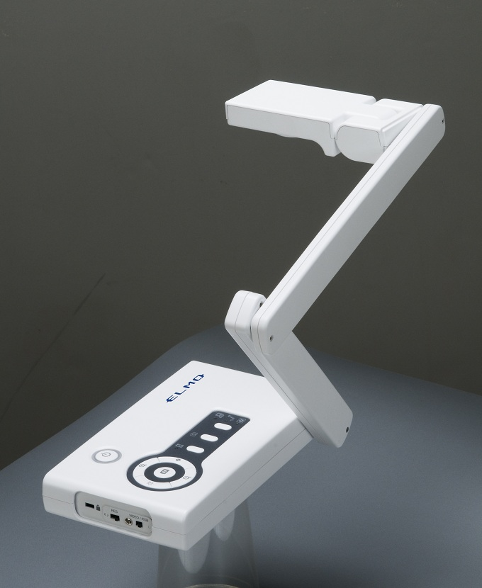 Foldable portable ELMO's visualiser for teachers 2010